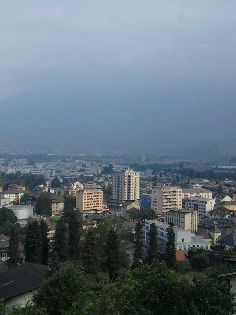 View on the town centre from the Choex hill, with the Market building in the middle and the Crochetan theatre on the left